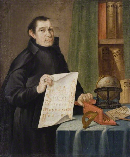 Portrait of Thomas Zebrowski. He hols a project for the astronomical observatory at Vilnius University